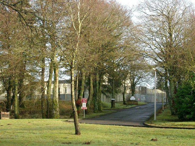 Dungavel House IRC. This former prison now houses failed asylum seekers